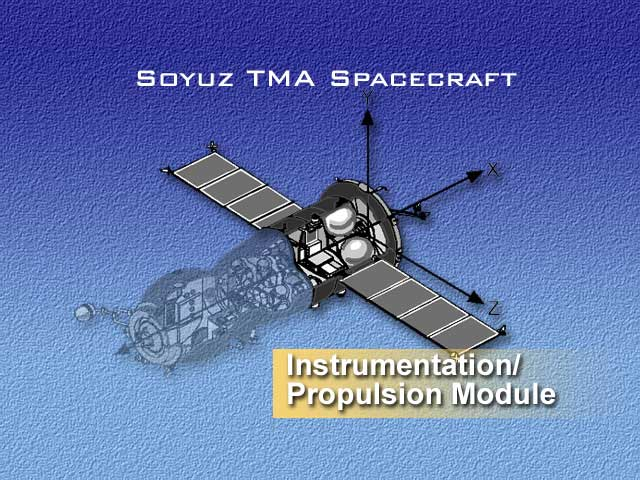 This graphic highlights the Soyuz spacecraft's Instrumentation/Propulsion Module. [Image:Soyuz-TMA instrumentation&propulsion module.jpg] doesn't show up in , new name.